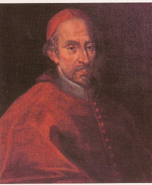 Cardinal Pier Marcellino Corradini (d. 1743)